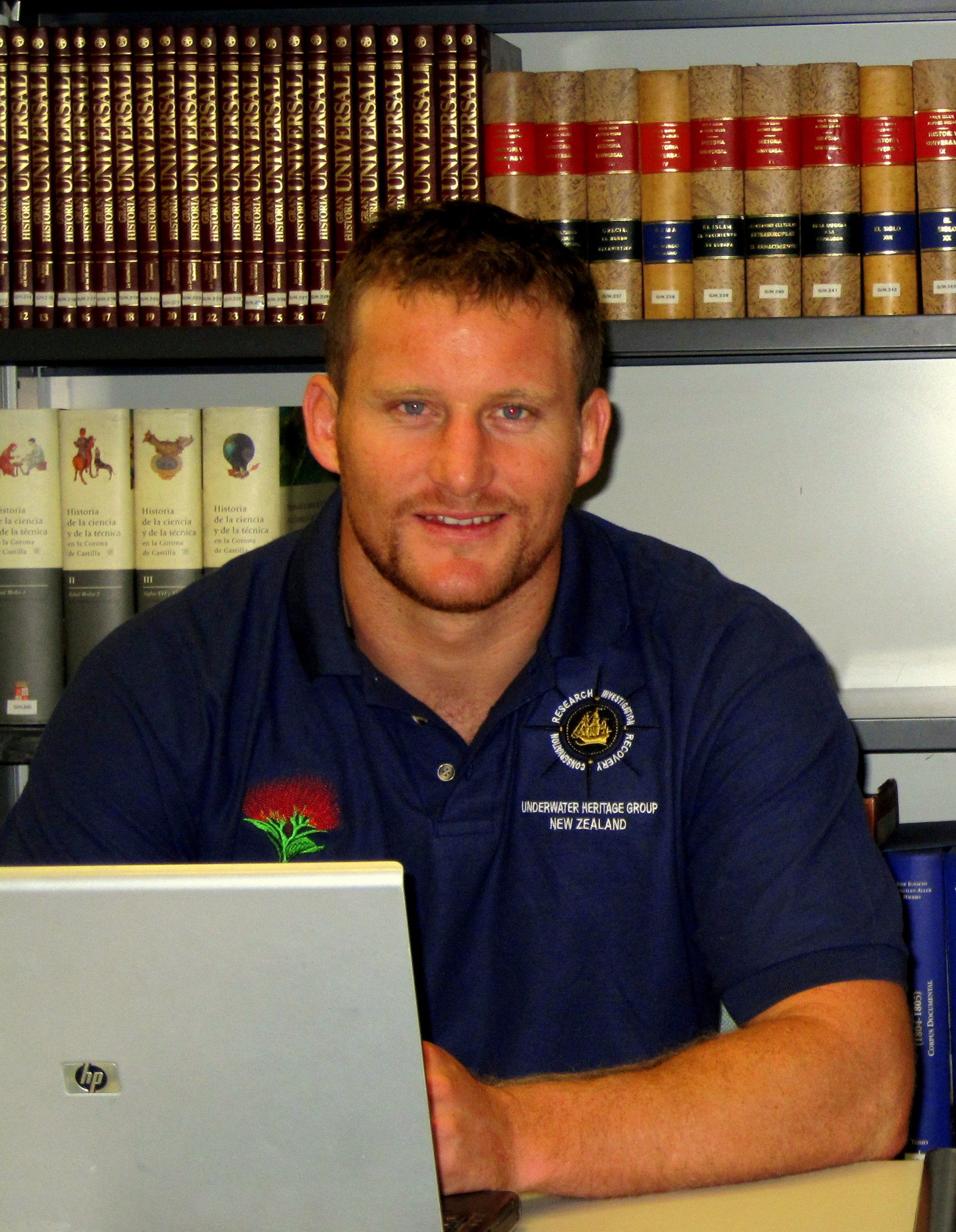 A Flame Flickers in the Darkness by Winston Cowie New Zealand historical fiction novel